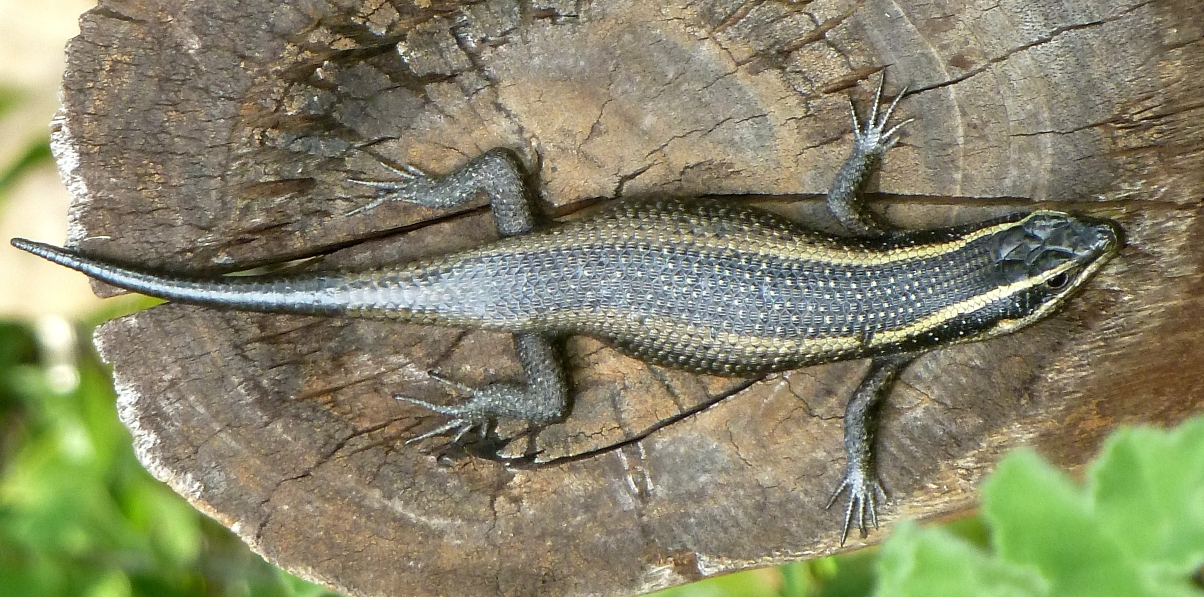 Montane striped skink in Manie van der Schijff Botanical Garden, University of Pretoria